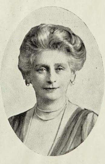 An older white woman with silvery hair in a bouffant updo; she is wearing strands of beads or pearls, and small earrings.